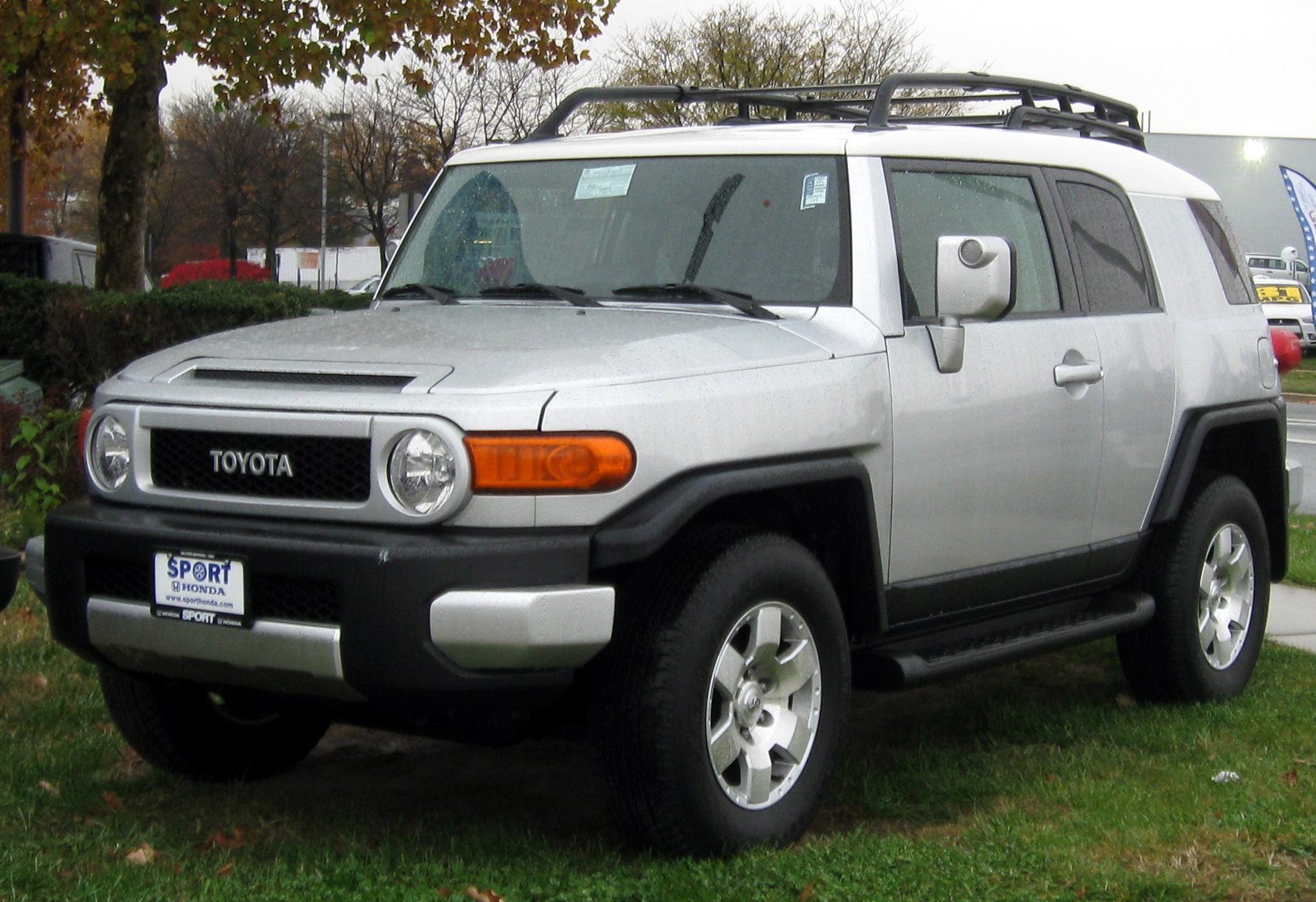 Toyota FJ Cruiser photographed in Silver Spring, Maryland, USA. Good Design Award 2011.